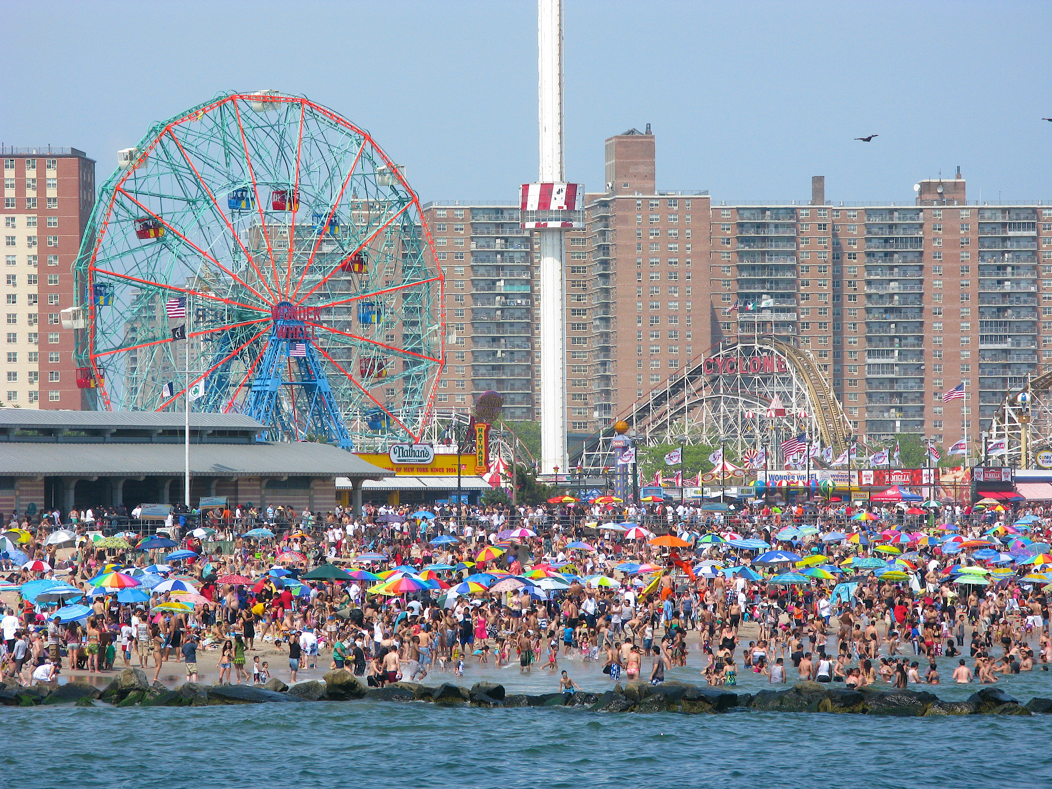 Coney Island on Memorial Day, 20112. Beautiful day; 33 degrees. Taken from the pier.